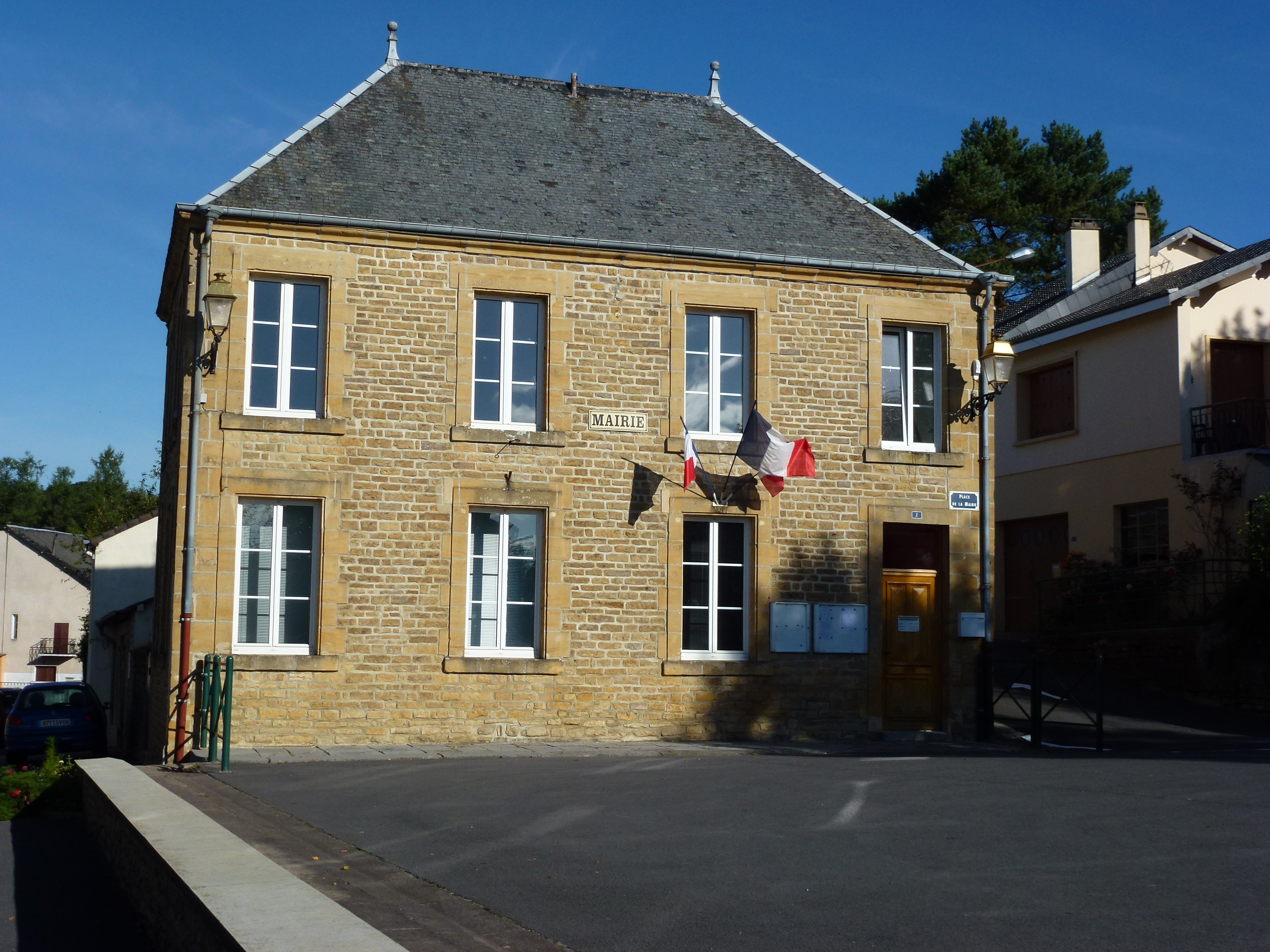 Lonny (Ardennes) mairie